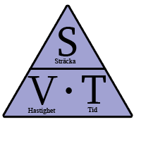 path = speed × time